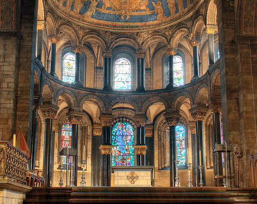 Maastricht, Church of Our Beloved Lady. East choir with carved capitals (XIIth century)